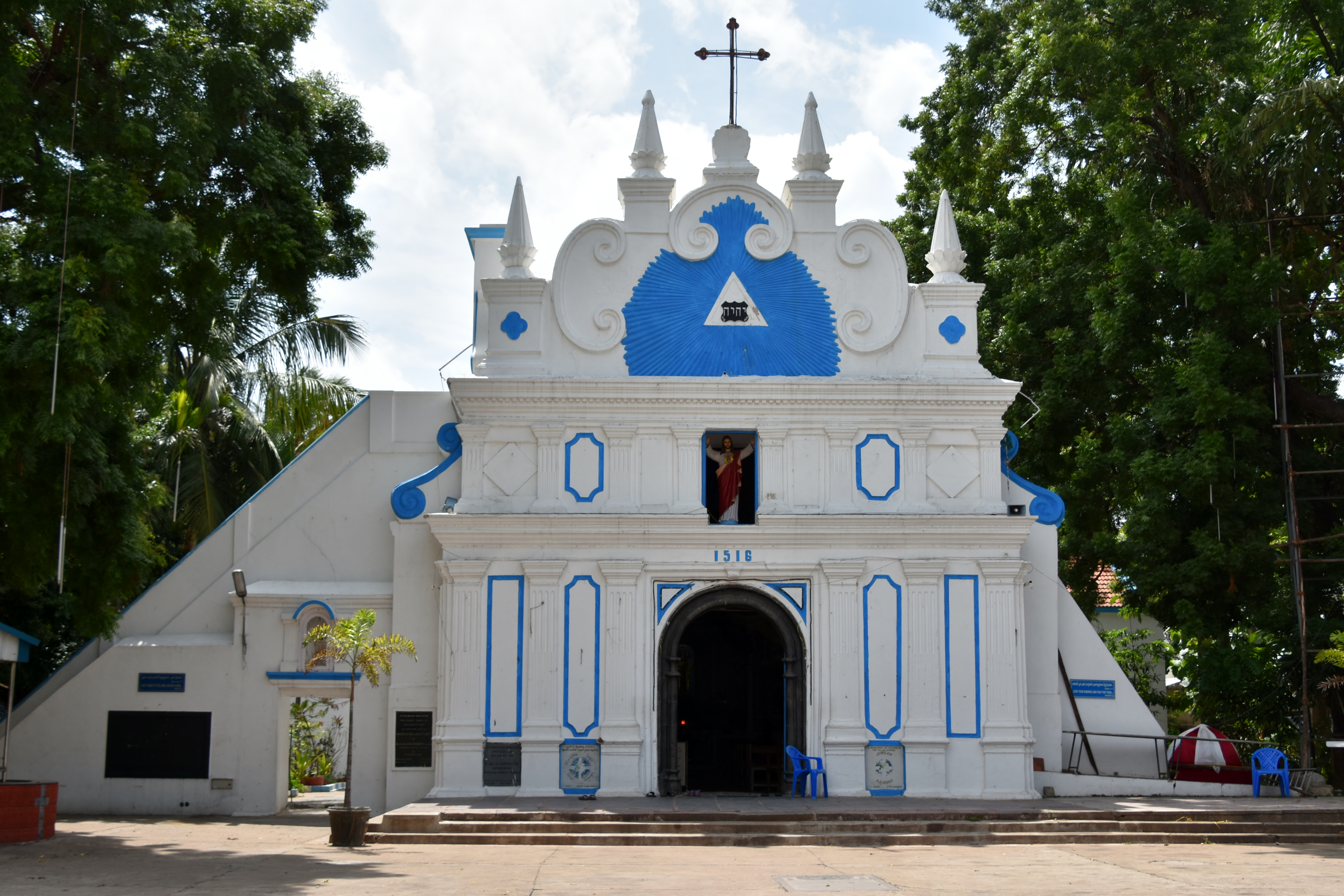 Luc Church, Portuguese, 1547-82, Chennai (2)